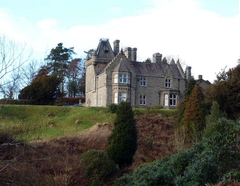 Photograph of The Ridding, a country house in North Yorkshire